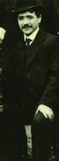 Frank Keegan West Stanley pit disaster hero.